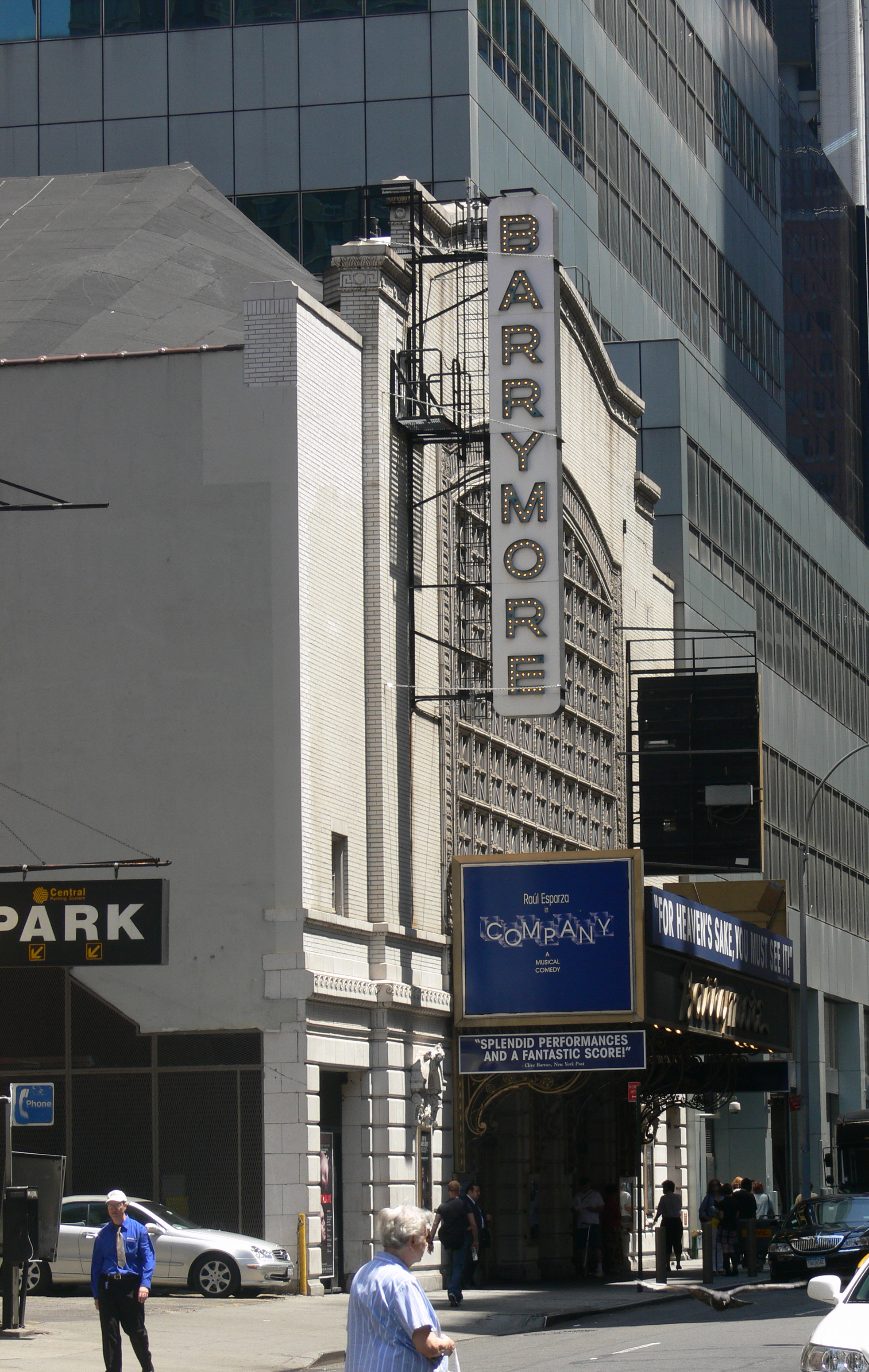 Ethel Barrymore Theatre, showing a revival of the musical Company 243 West 47th Street, Manhattan, New York City